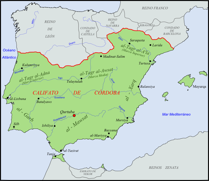 Caliphate of Córdoba in 1000